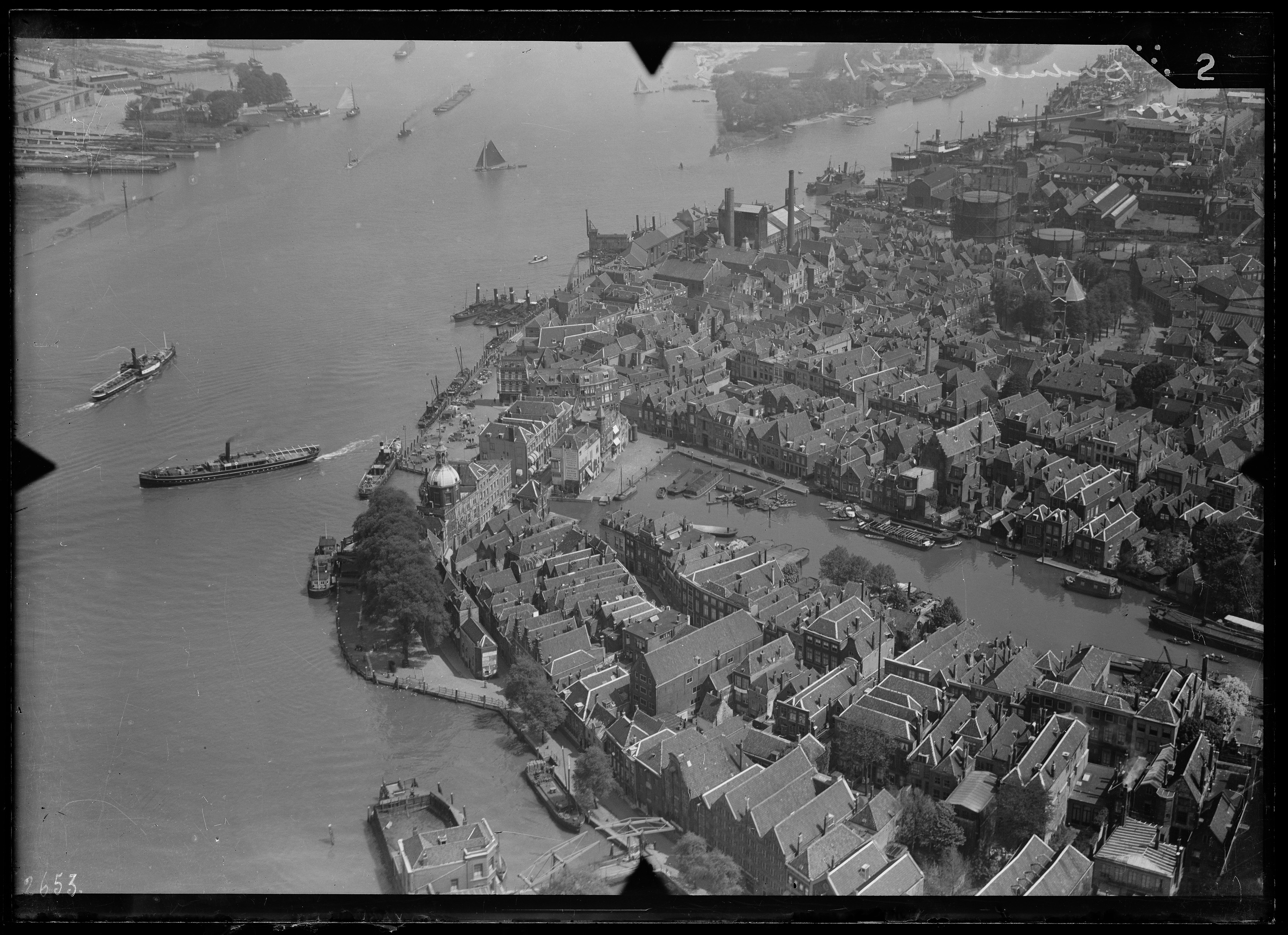 Aerial photograph of Dordrecht, The Netherlands